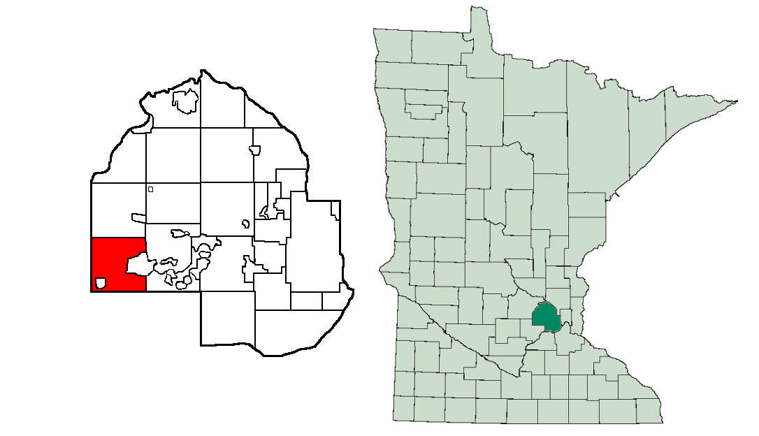 Location of Minnetrista in Hennepin County, Minnesta